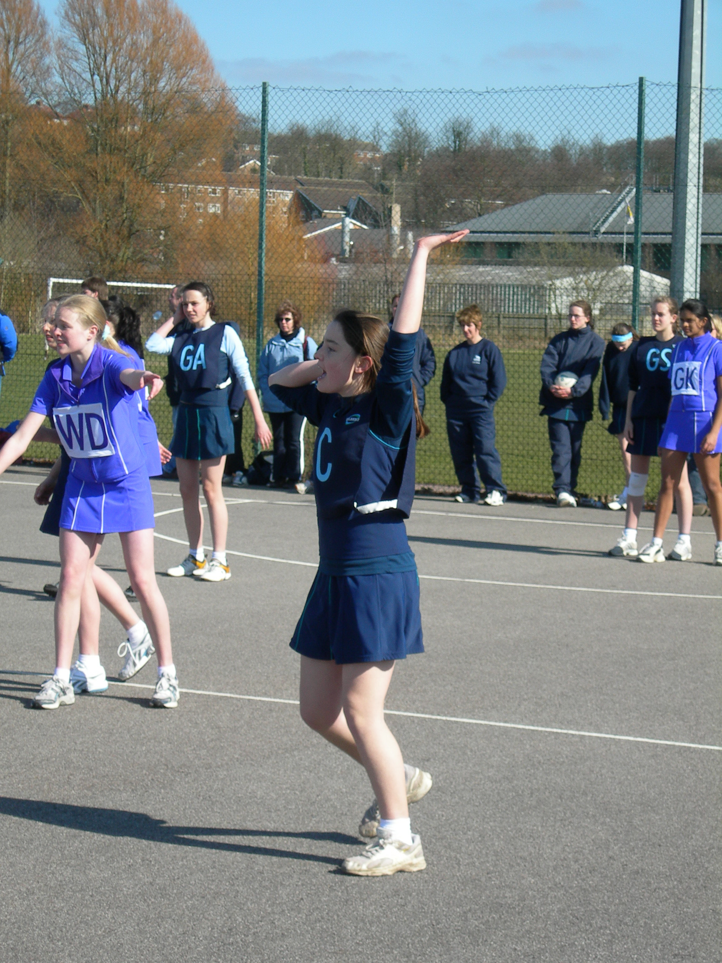 Wellington East Netball Club, New Zealand.